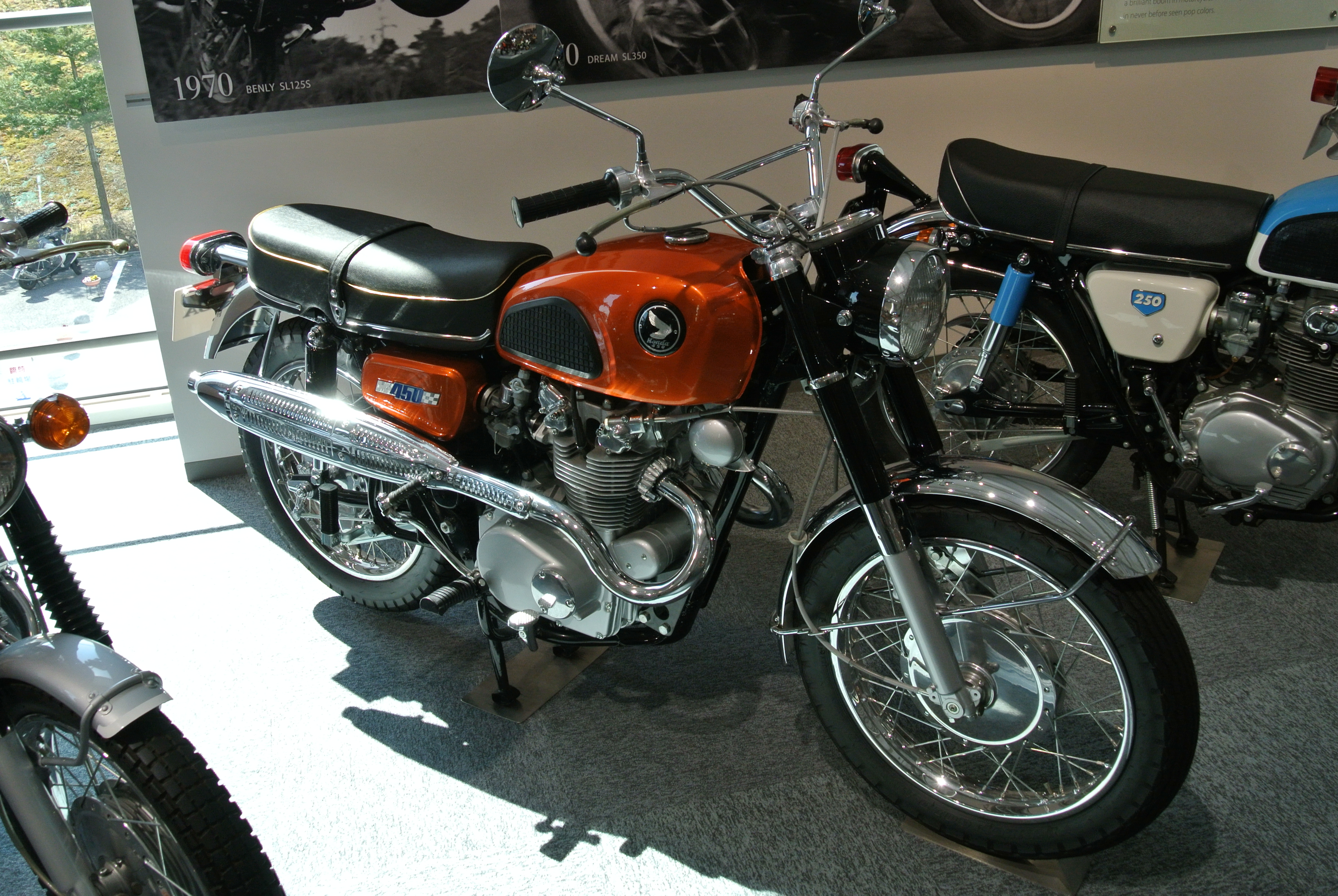 Honda Dream CB450D Super Sports in the Honda Collection Hall.